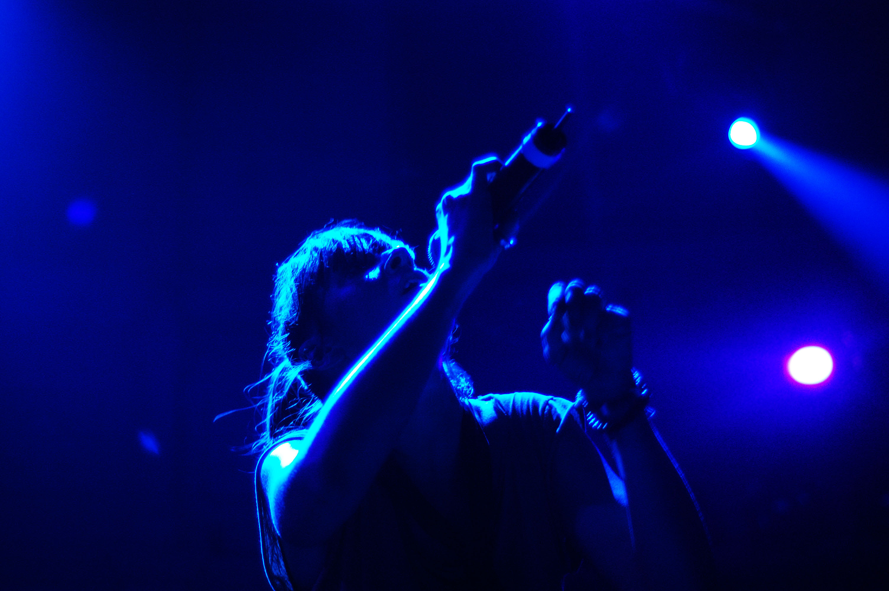 Chan Marshall performing Joni Mitchell's "Blue"